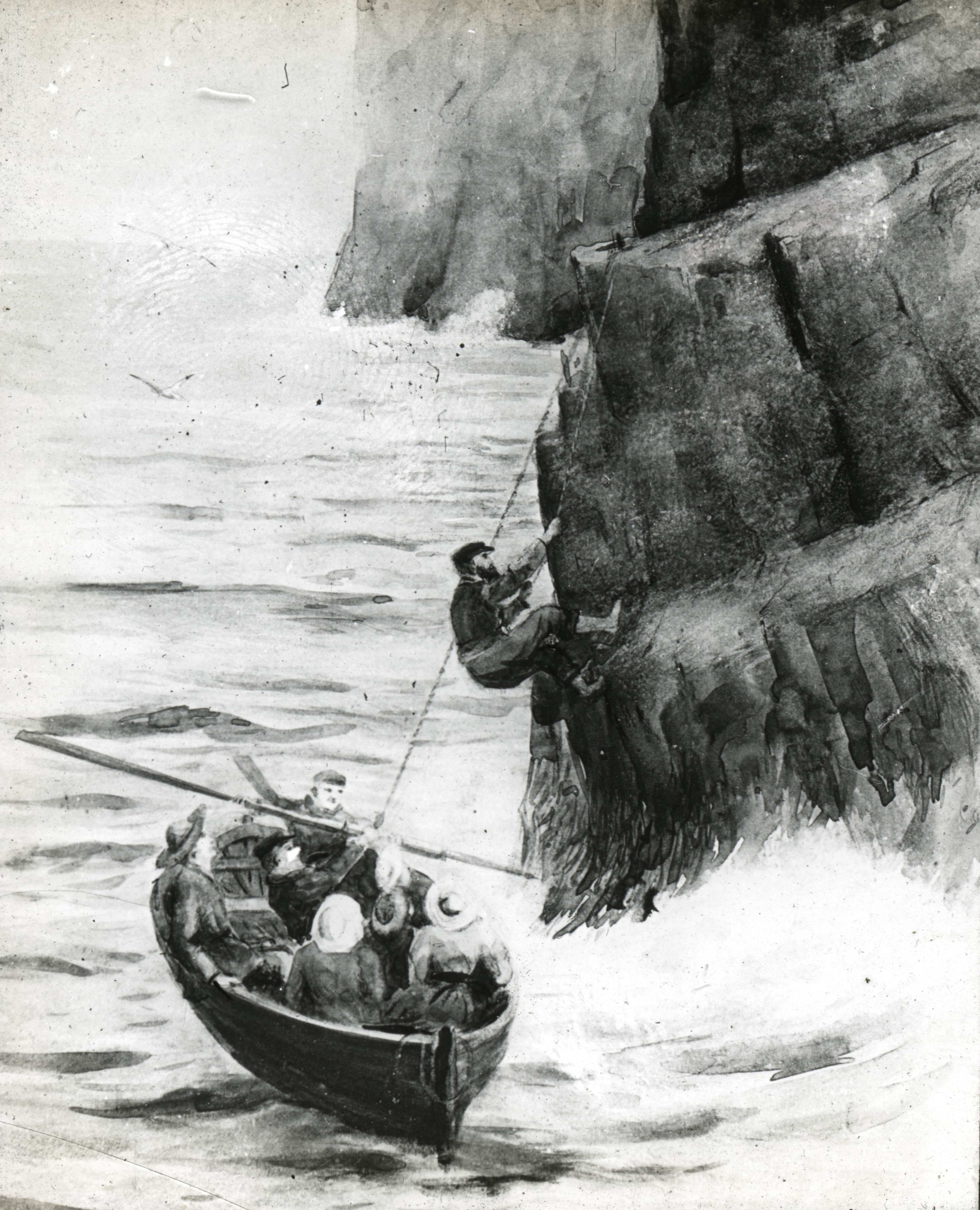 "Landing place on Stac Lii", illustration from "Climbing in St Kilda" by Norman Heathcote. Scottish Mountaineering Club Journal Volume 6 Number 5, May 1901. Stac Lii, now known as Stac Lee.